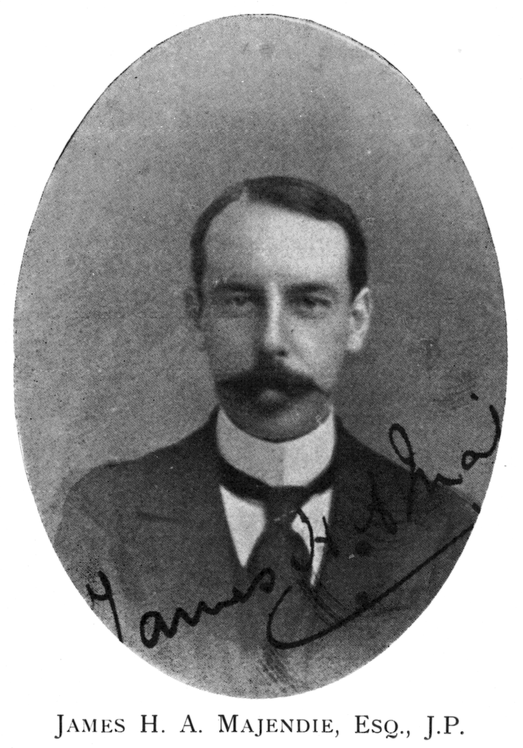 Full-face photographic portrait of James Henry Alexander MAJENDIE (1871-1939) bearing his signature and captioned JAMES H. A. MAJENDIE, ESQ., J.P. [Esquire, Justice of the Peace] from the book entitled Suffolk Leaders: Social and Political, by Charles Albert Manning PRESS (1869-1943) published (for subscribers only) in May 1906 by the Hornsey & Tottenham Press Ltd.